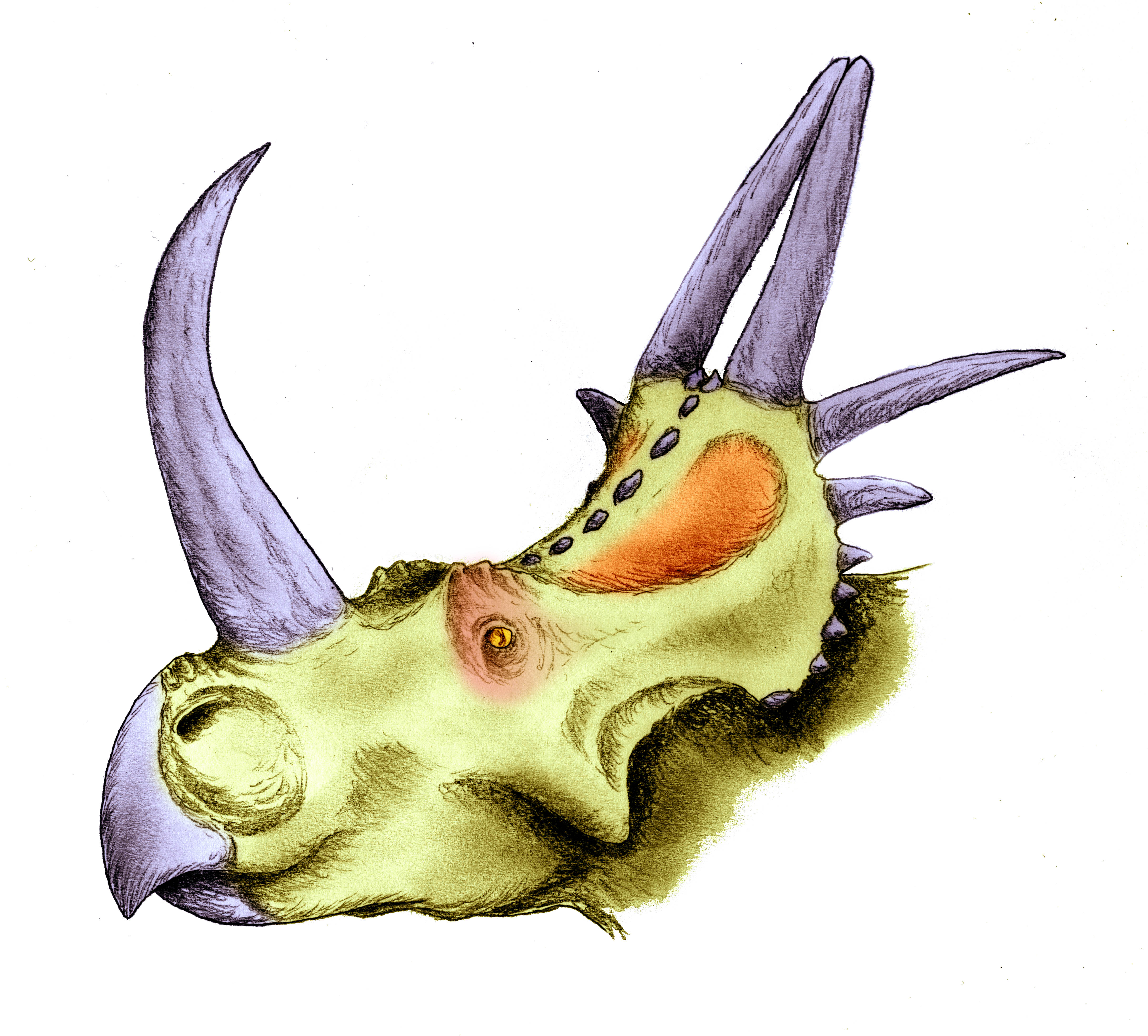 Rubeosaurus ovatus, a ceratopsian